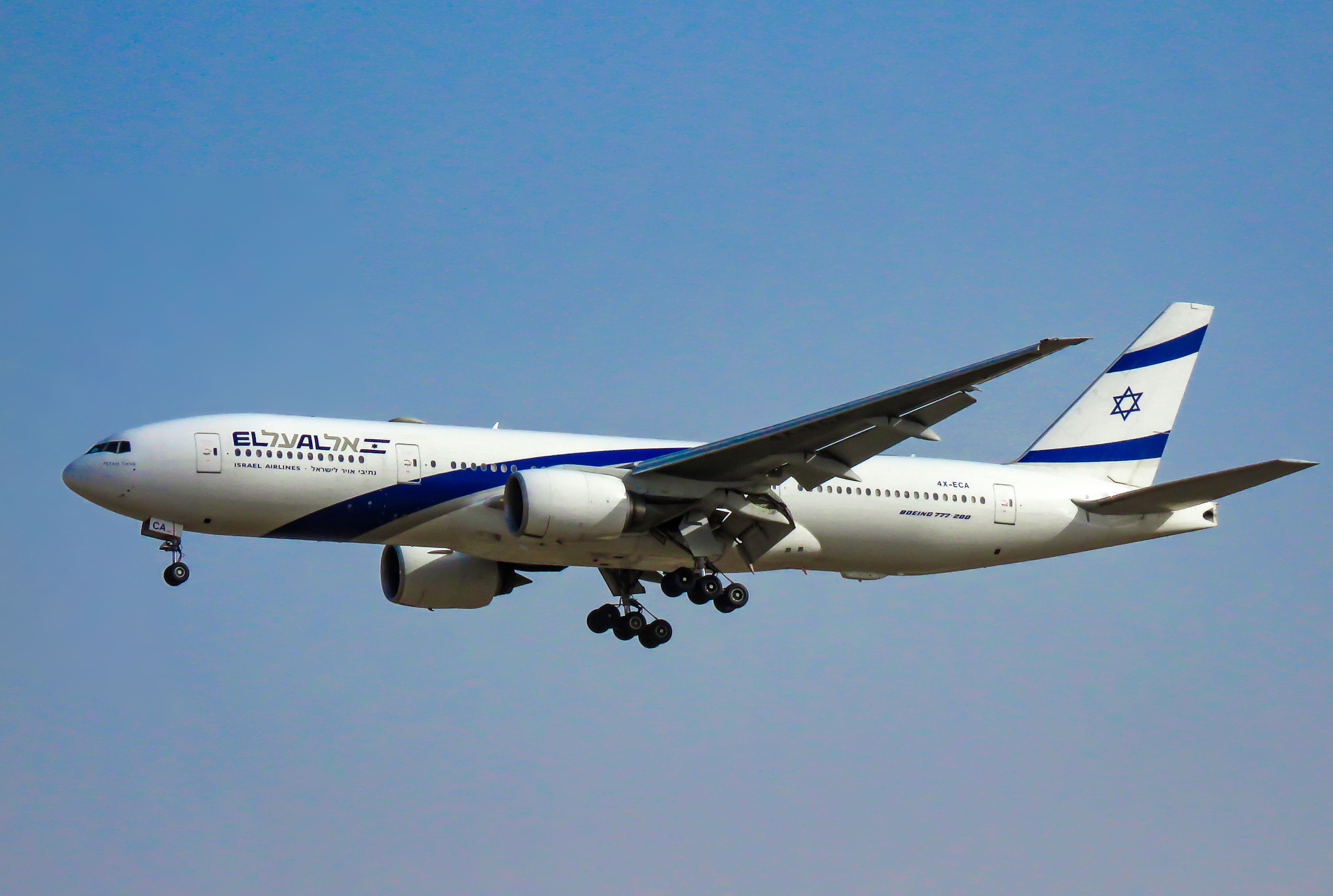 El Al 95 from Tel Aviv. Rare sight before the lunar new year!